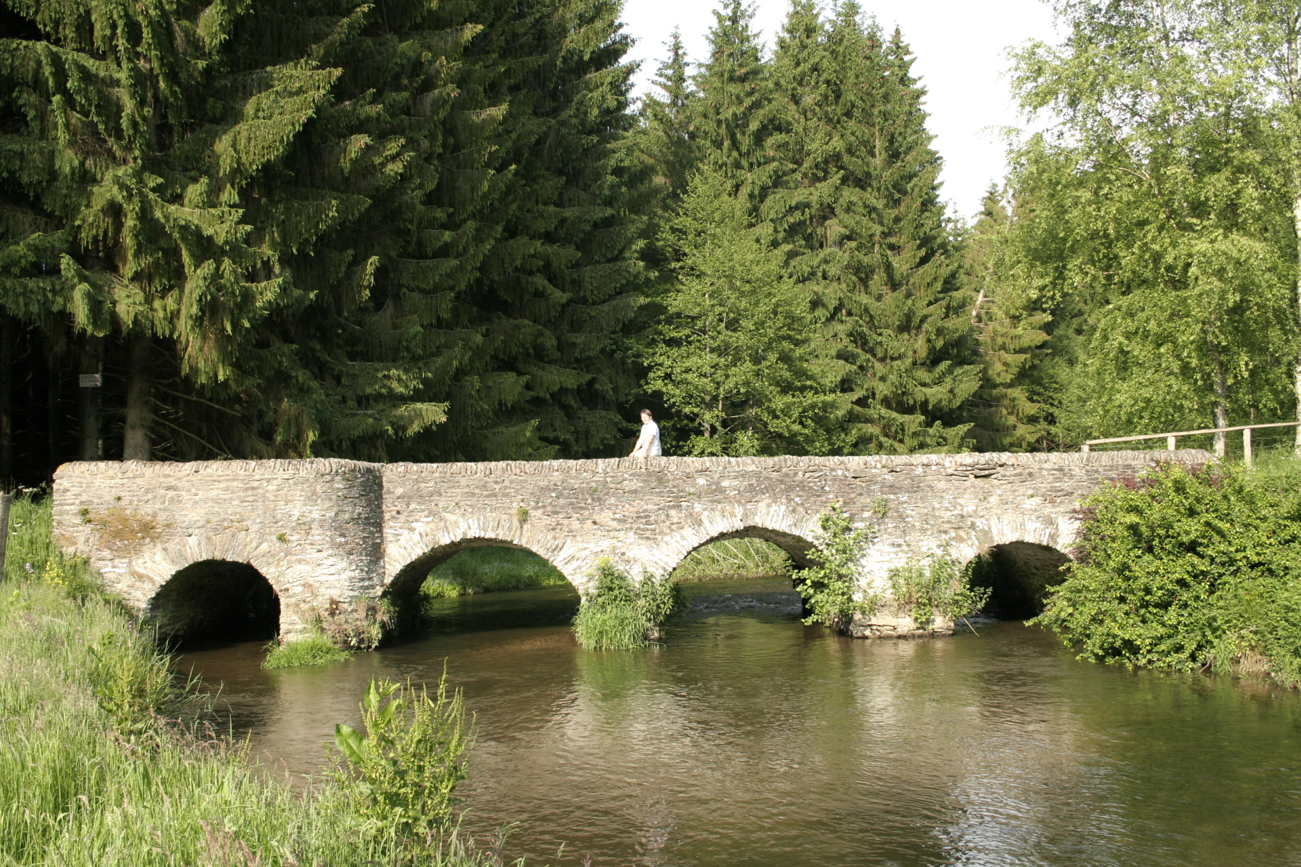 Maissin (Belgium), the Marie-Thérèse bridge (XVIIIth century) on the Lesse.